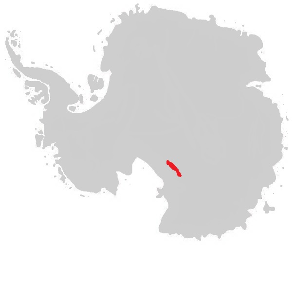 distribution map the Cryolophosaurus